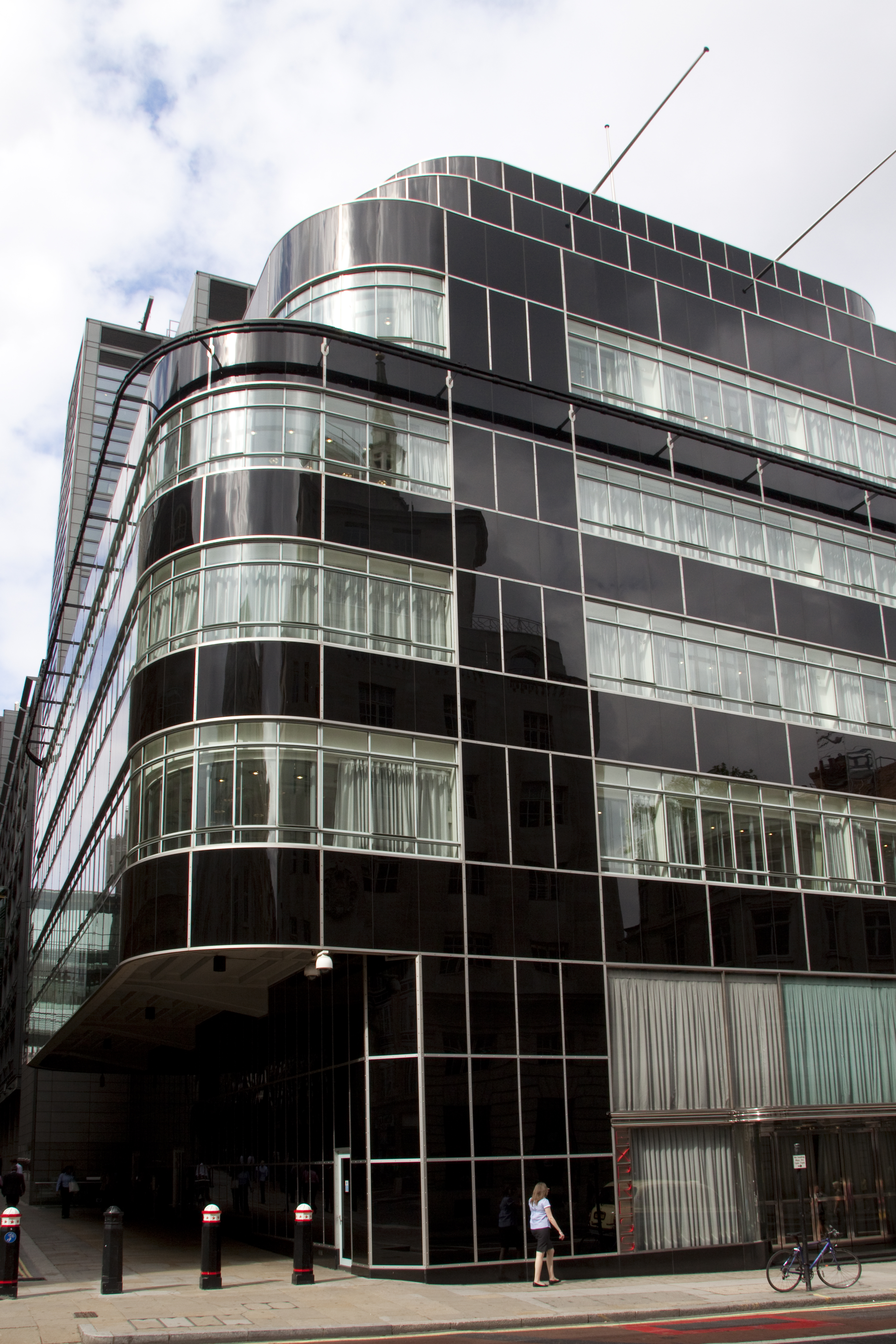 Former Daily Express Building, 121-128 Fleet Street, London